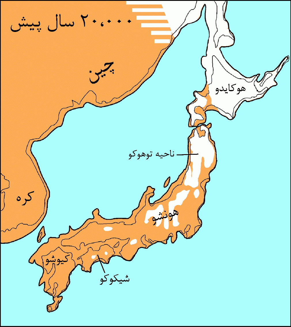 Map of the Periglacial Region in Japan at the Height of the Last Glaciation about 20,000 years ago